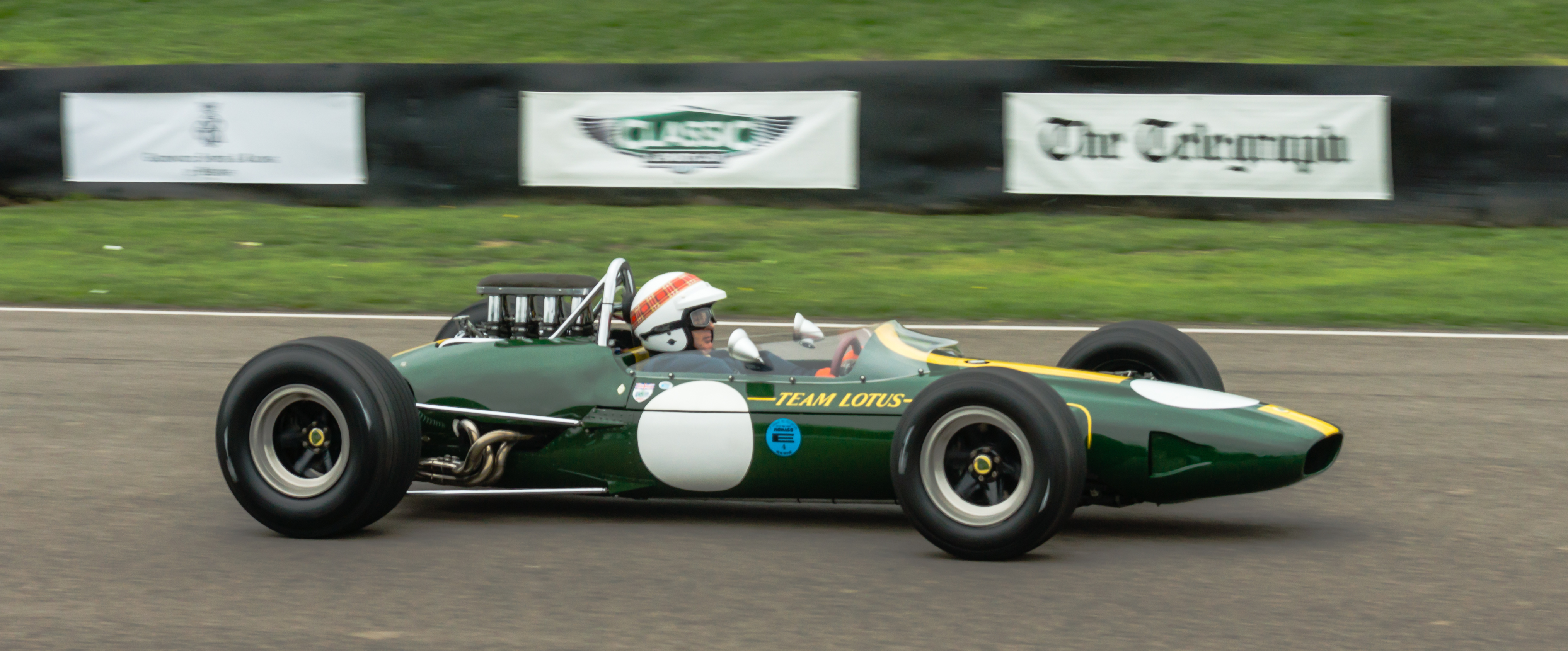 Jackie Stewart drives the Lotus 33 Climax at the 2013 Goodwood Revival meeting. Stewart's close friend Jim Clark (1936-1968), drove the 33 Climax on his way to the 1965 F1 World Championship.